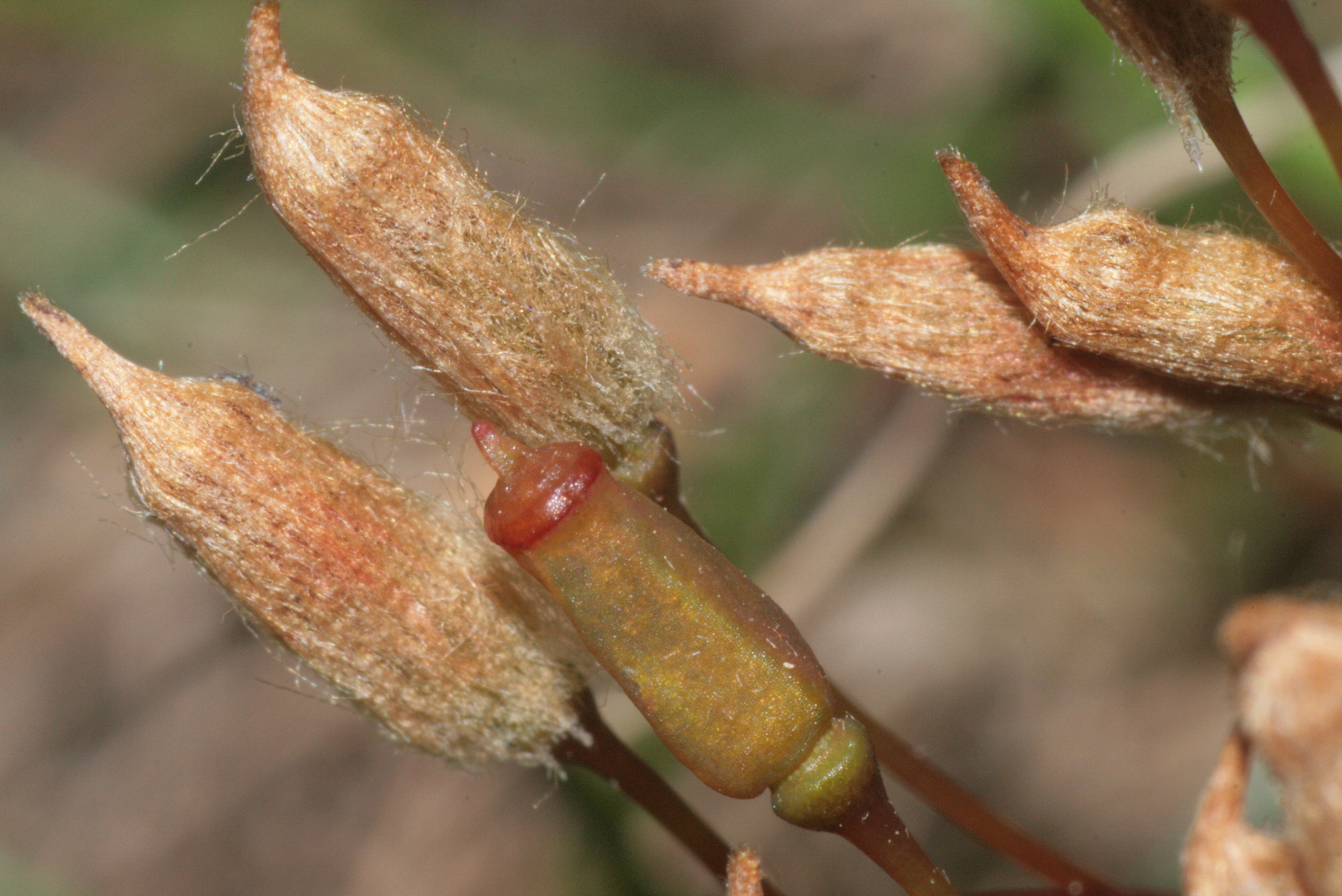 Polytrichum piliferum